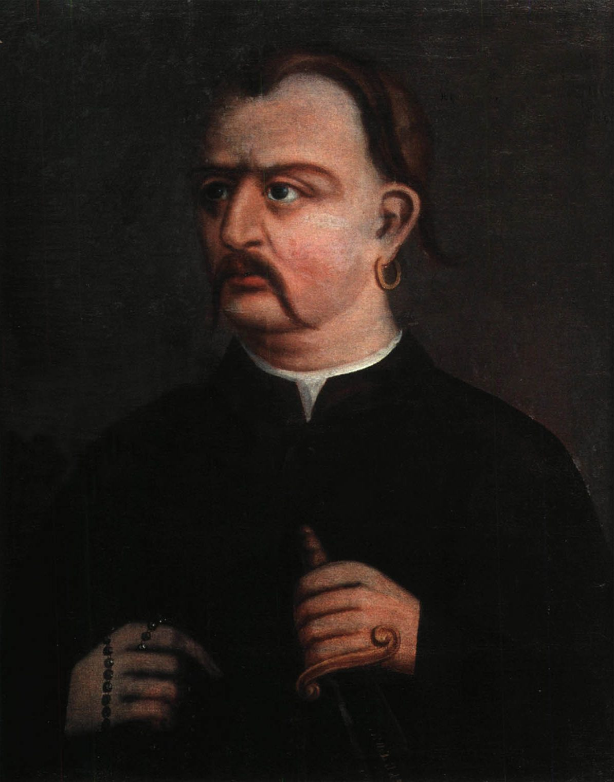 Portrait of Maxym Zheleznyak, end of the XVIII century, Artistic museum of Sumy